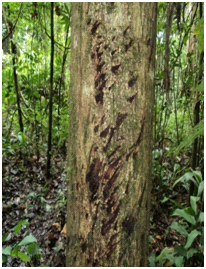 Panther Scratches